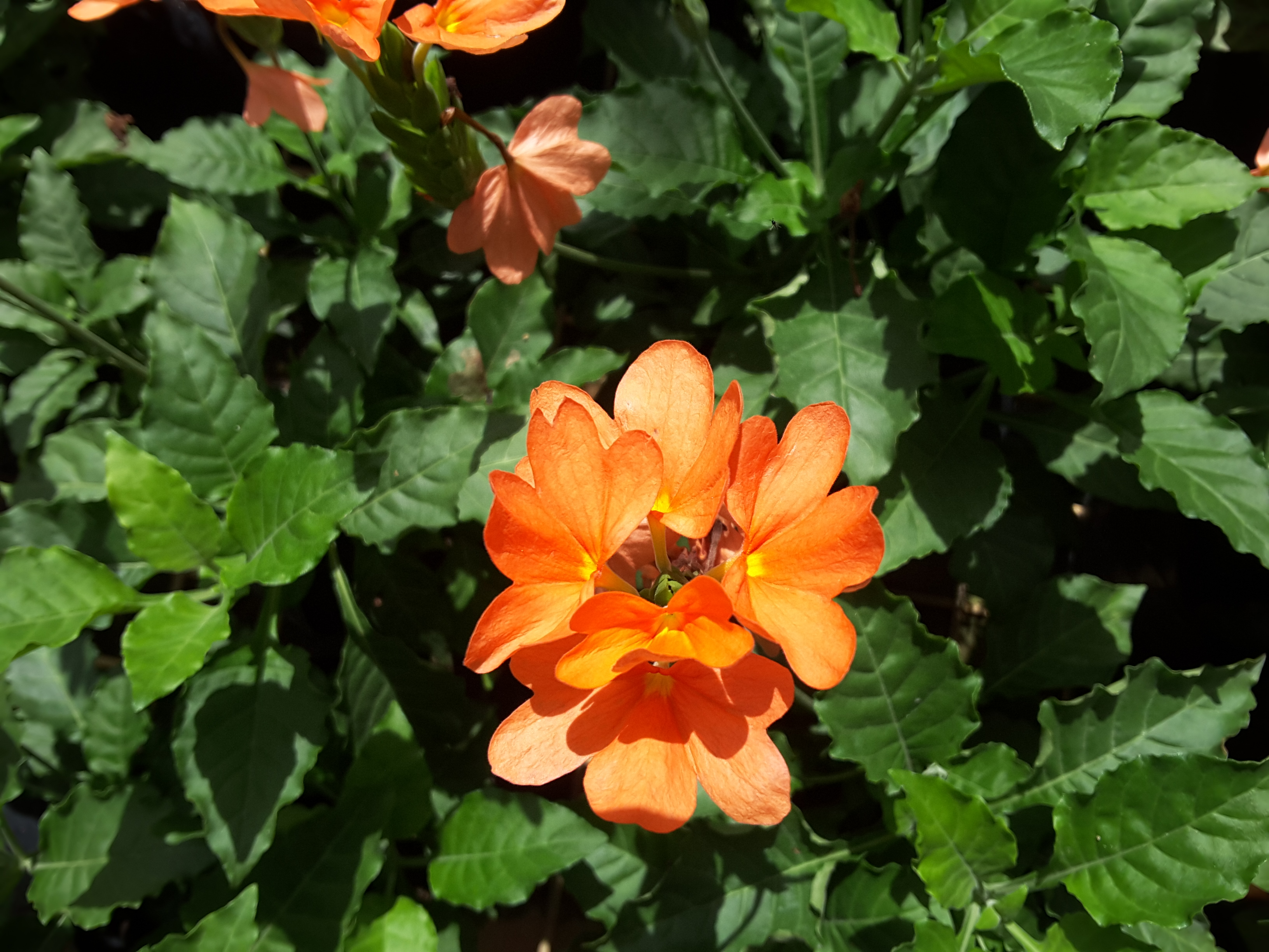 Crossandra infundibuliformis in Singapore